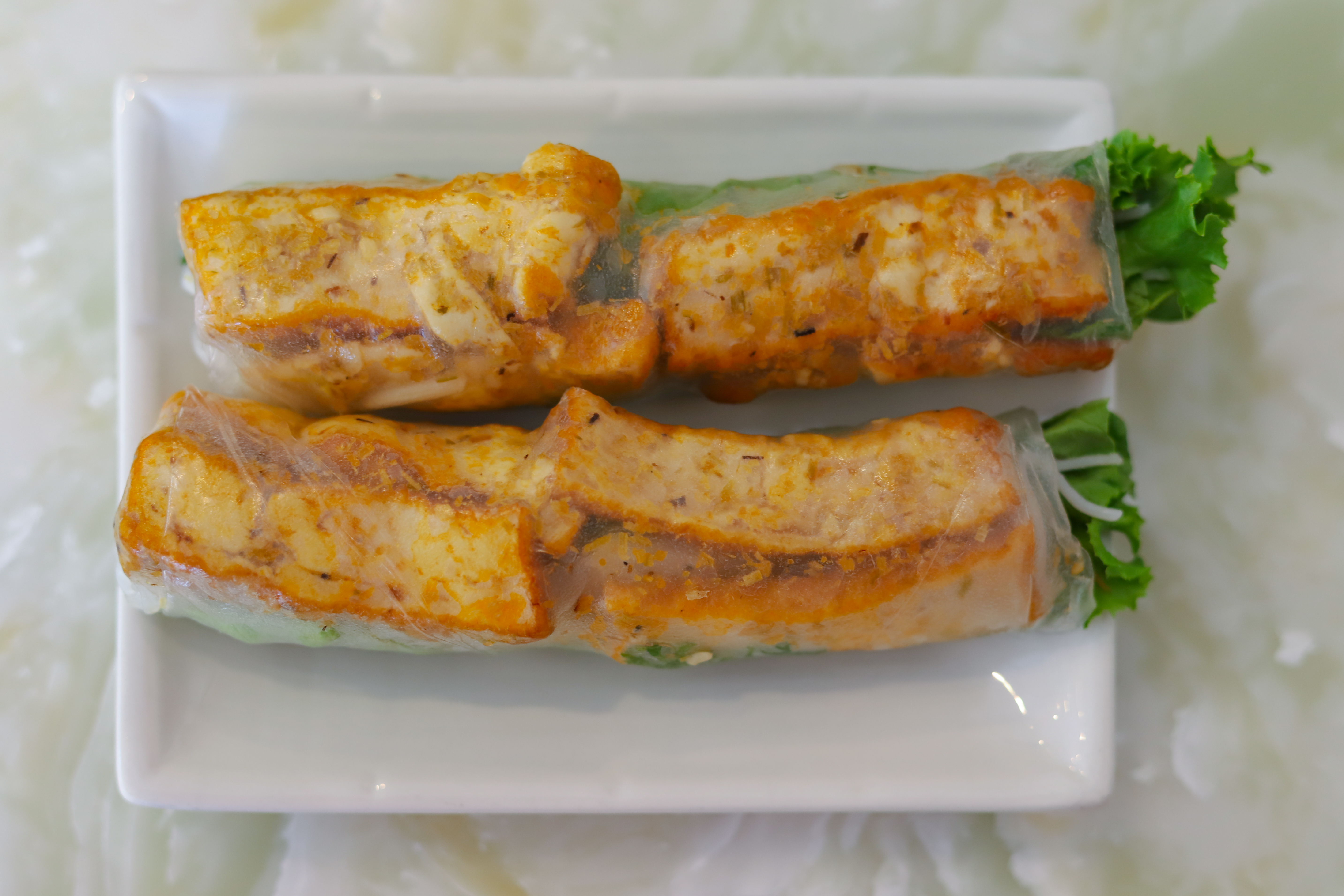 Gỏi cuốn chay (Fresh Vegetarian Spring Roll).